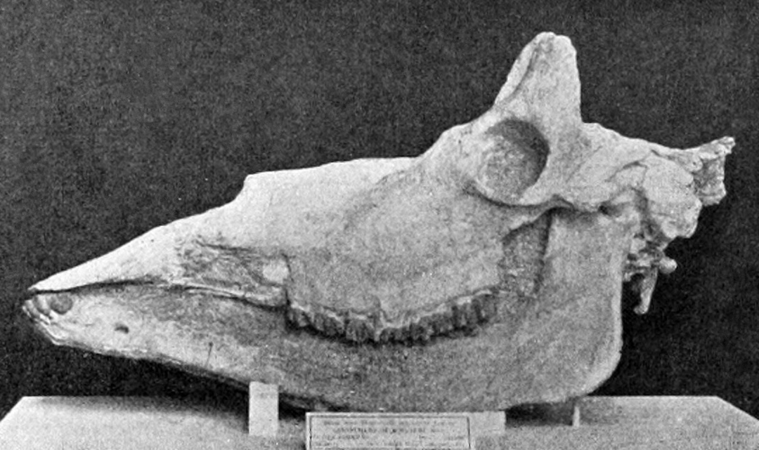 Skull of Samotherium from Samos, Greece